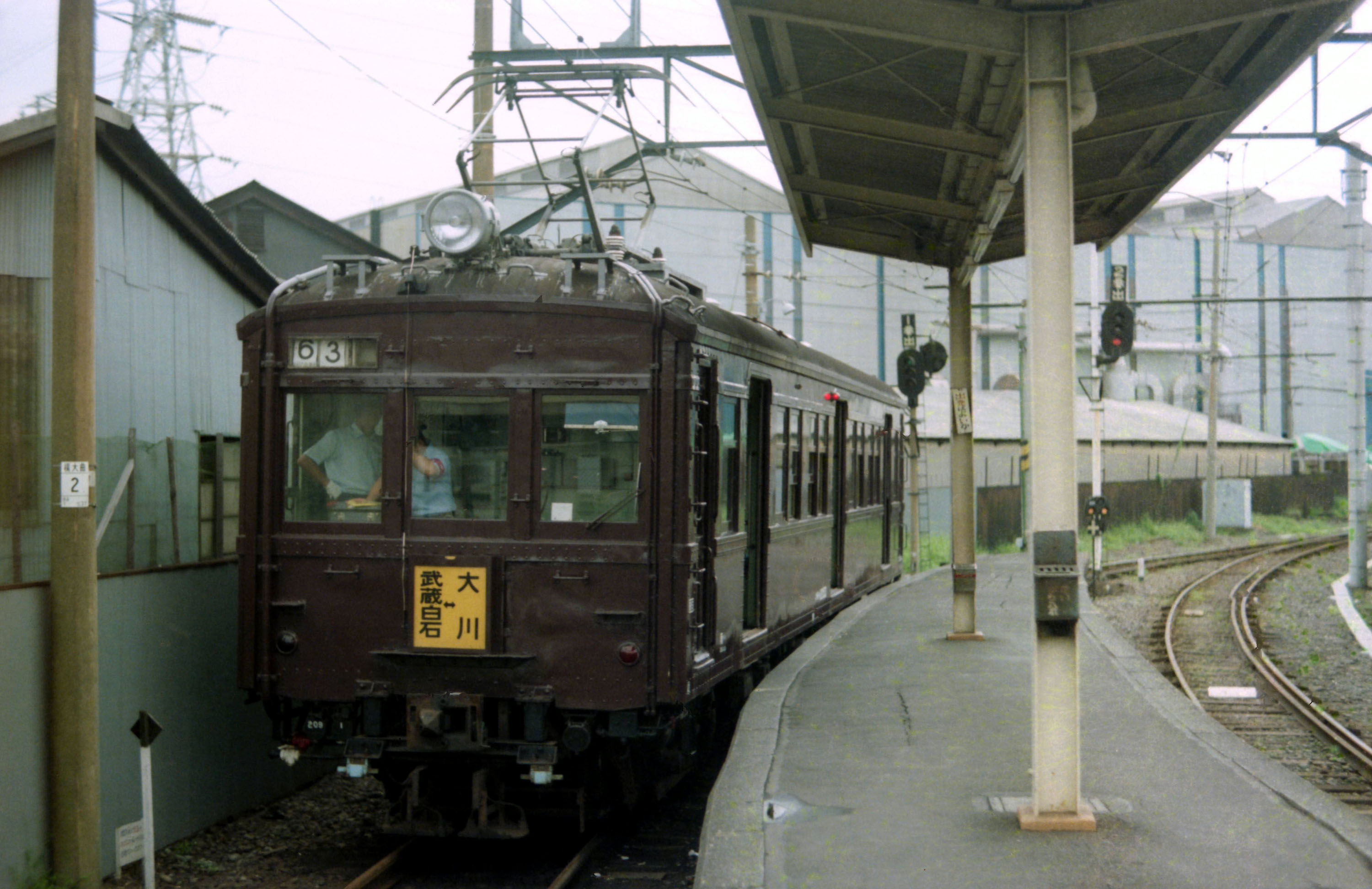 Former Okawa Branch Line platforms at Musashi-Shiraishi Station on the Tsurumi Line